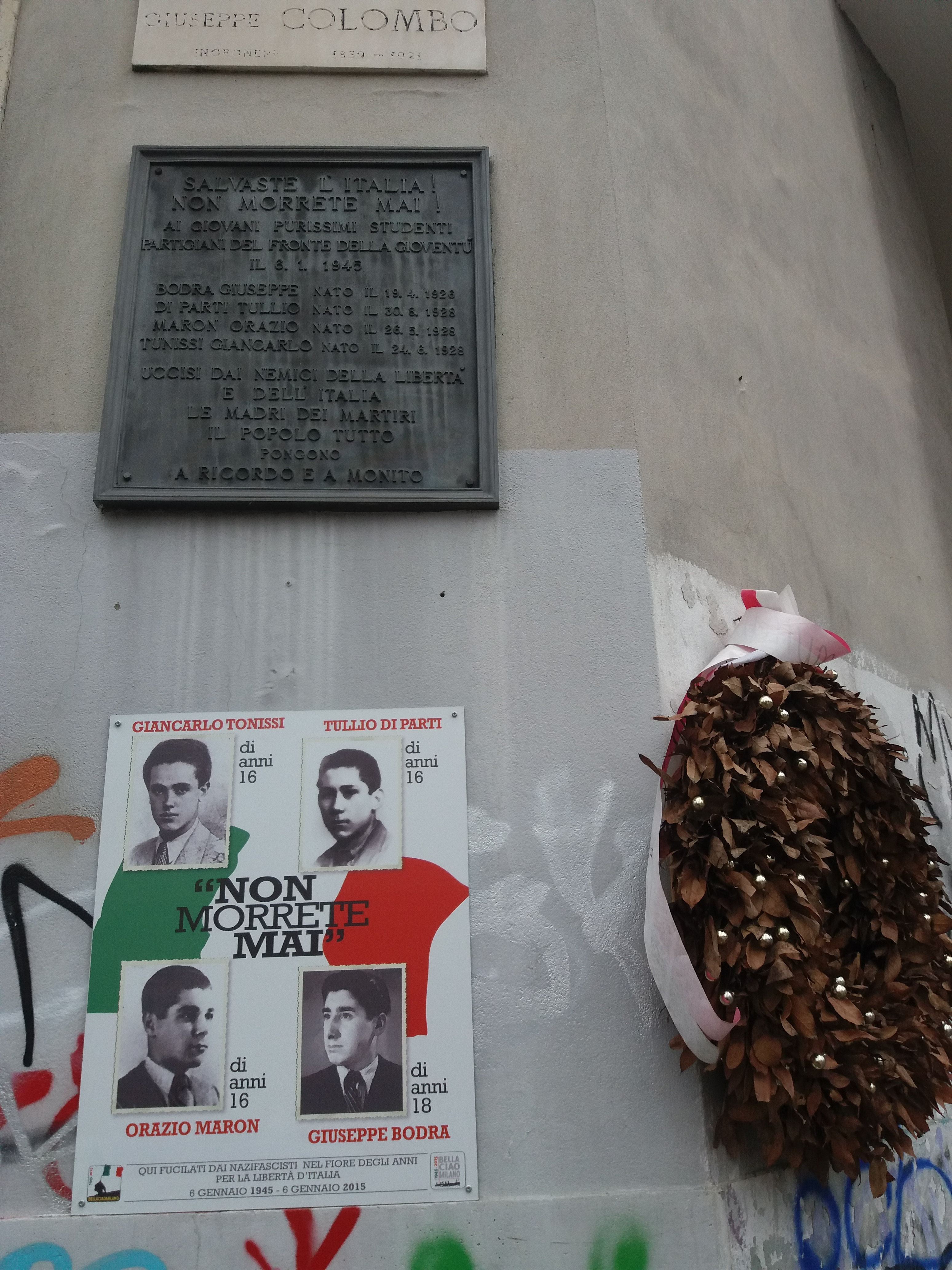 Commemorative plaque for four young partisans shot in Milan on 1/6/1945 at the corner of via Botticelli 9 with via Colombo